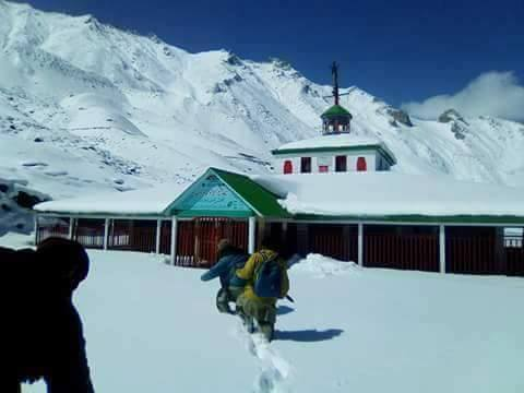 مسجد امیر کبیر خپلو ہنجور صوفی اباد